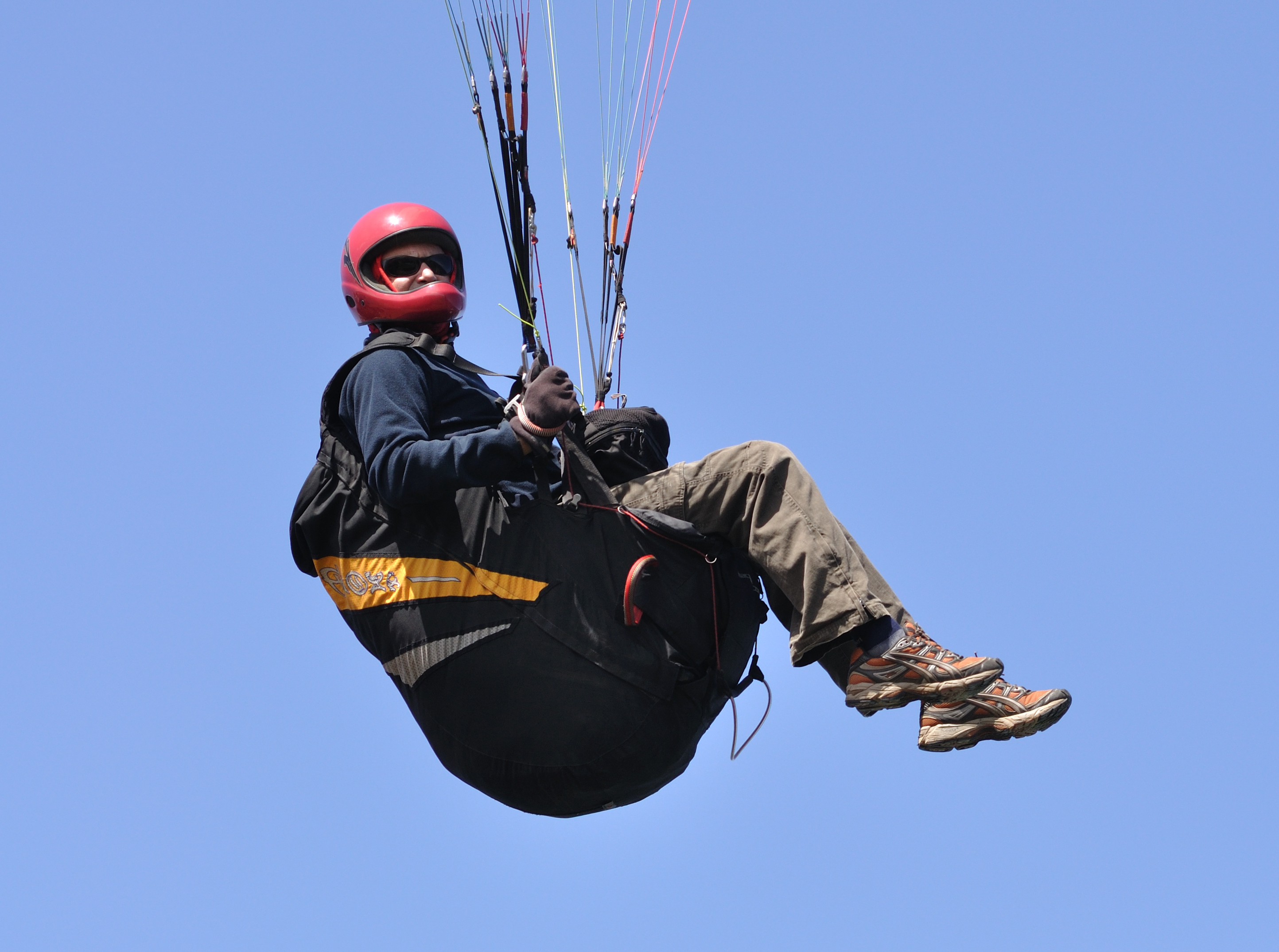 Paraglider with harness in flight near Puerto de la Cruz, Tenerife, Spain.